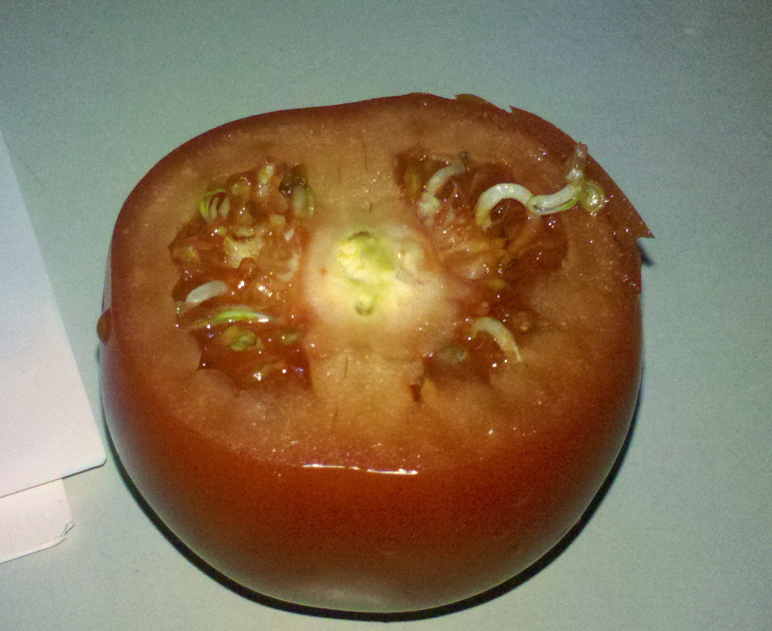 A tomato cut in half and turns out to be germinating.